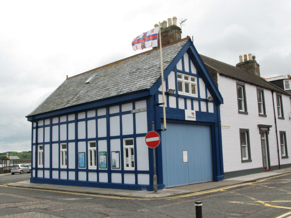 The lifeboat station at North Berwick in Scotland.